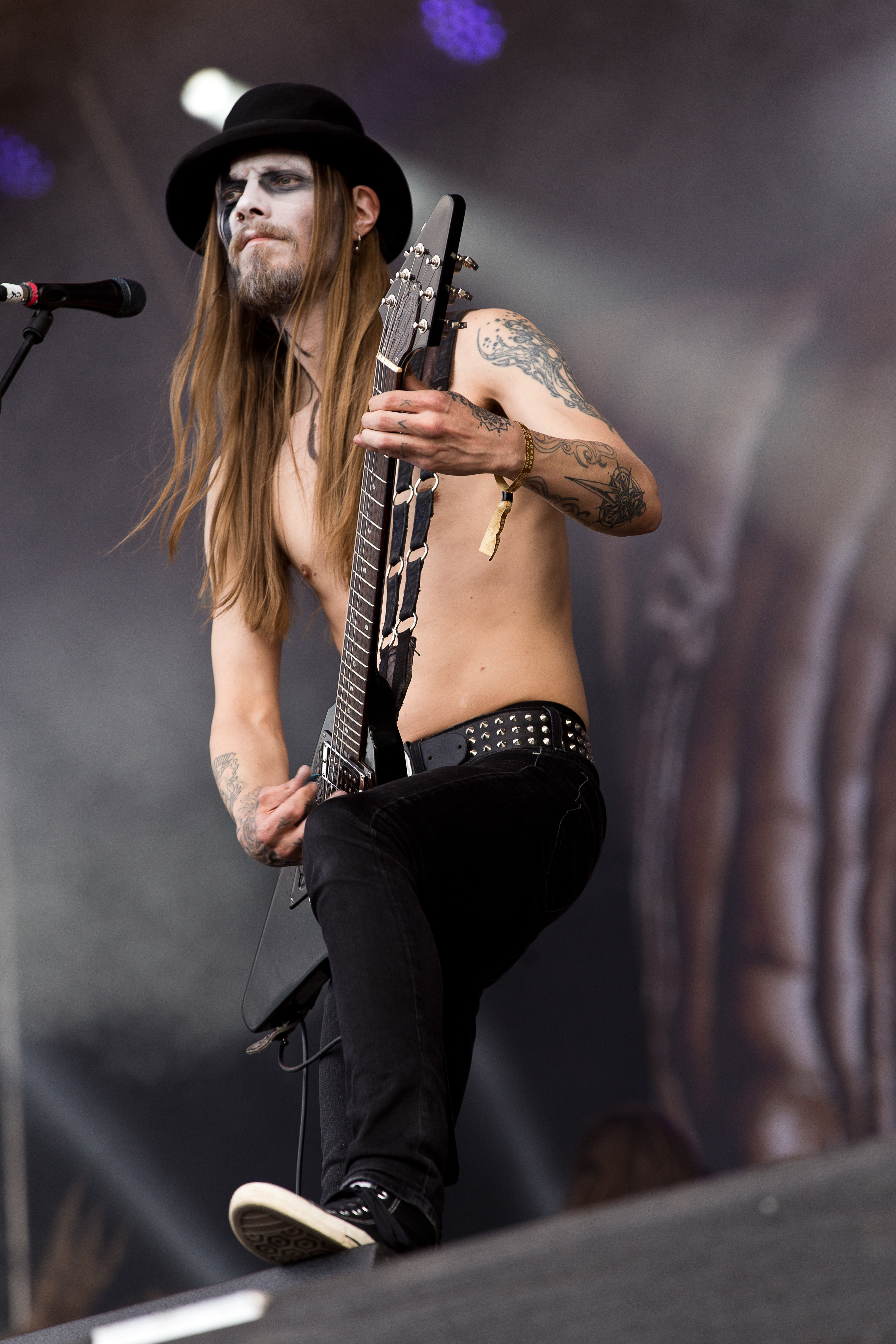 The Finnish folk metal band Finntroll at the Rockharz Open Air 2016 in Ballenstedt/Germany.